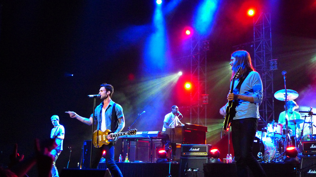 Maroon 5 live show in Hong Kong, China.